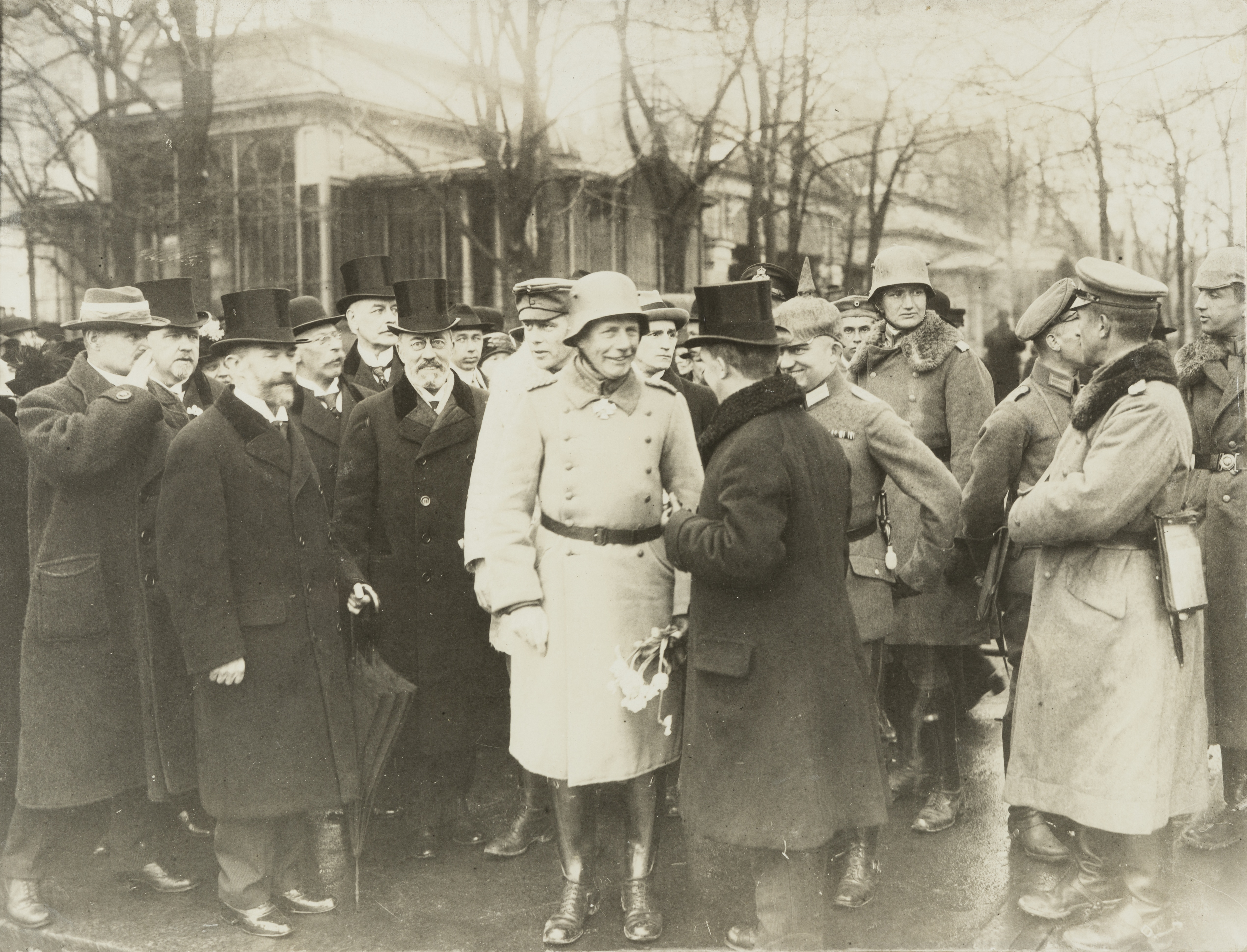 Finnish senator Onni Talas and the German general Rüdiger von der Goltz in Helsinki.